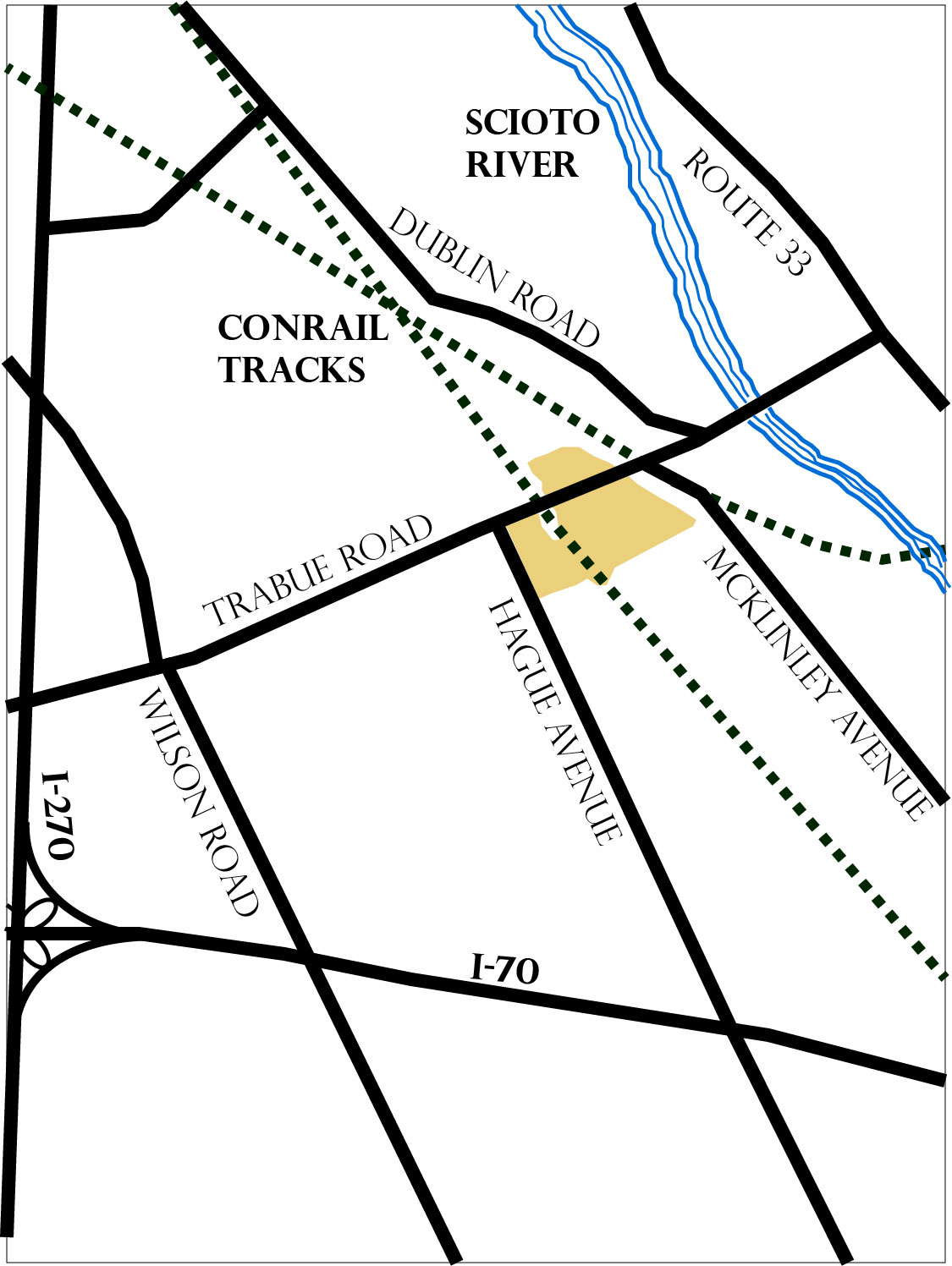 Map describes the relative boundaries of the neighborhood of San Margherita, located between Hague and McKinley Avenues along Trabue Rd